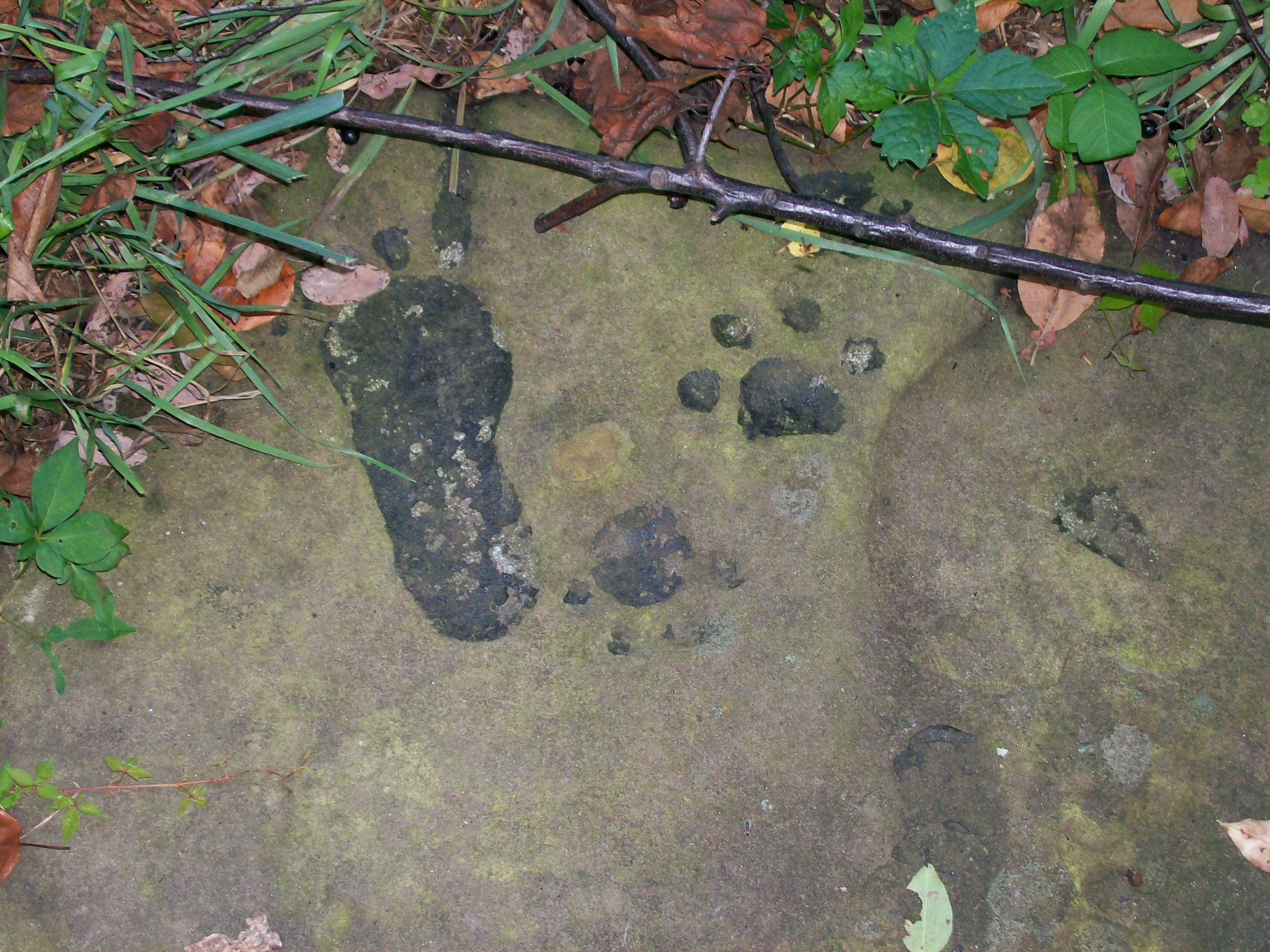 Tracks outlined with charcoal at Barnesville Petroglyphs